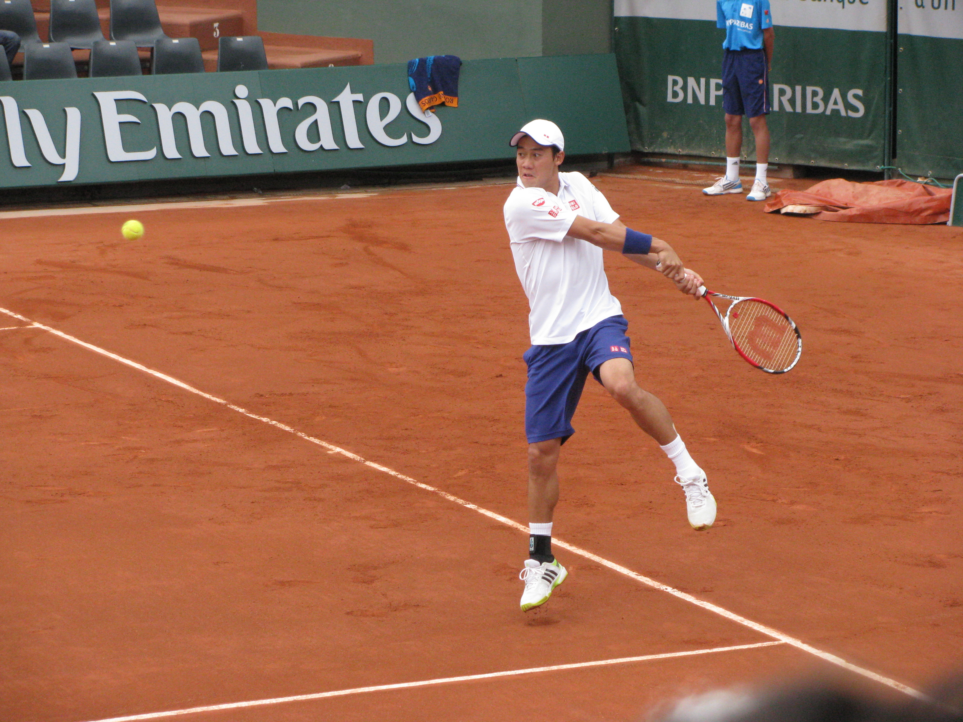 Kei Nishikori in the bullring court at Roland Garros in the 2014 French Open. He lost his first round match to Martin Klizan 7-6(4), 6-1, 6-2 on Monday, May 26, 2014. Photo by Joe Samuel Starnes.